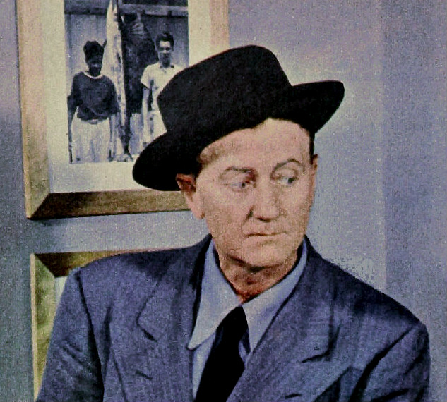 Photo of Len Doyle as Harrington from the radio show Mr. District Attorney. A search for renewals was done in periodicals for the years 1974 and 1975. There were no listings for the title "Radio Mirror". There's no evidence of continuing copyright for the magazine.